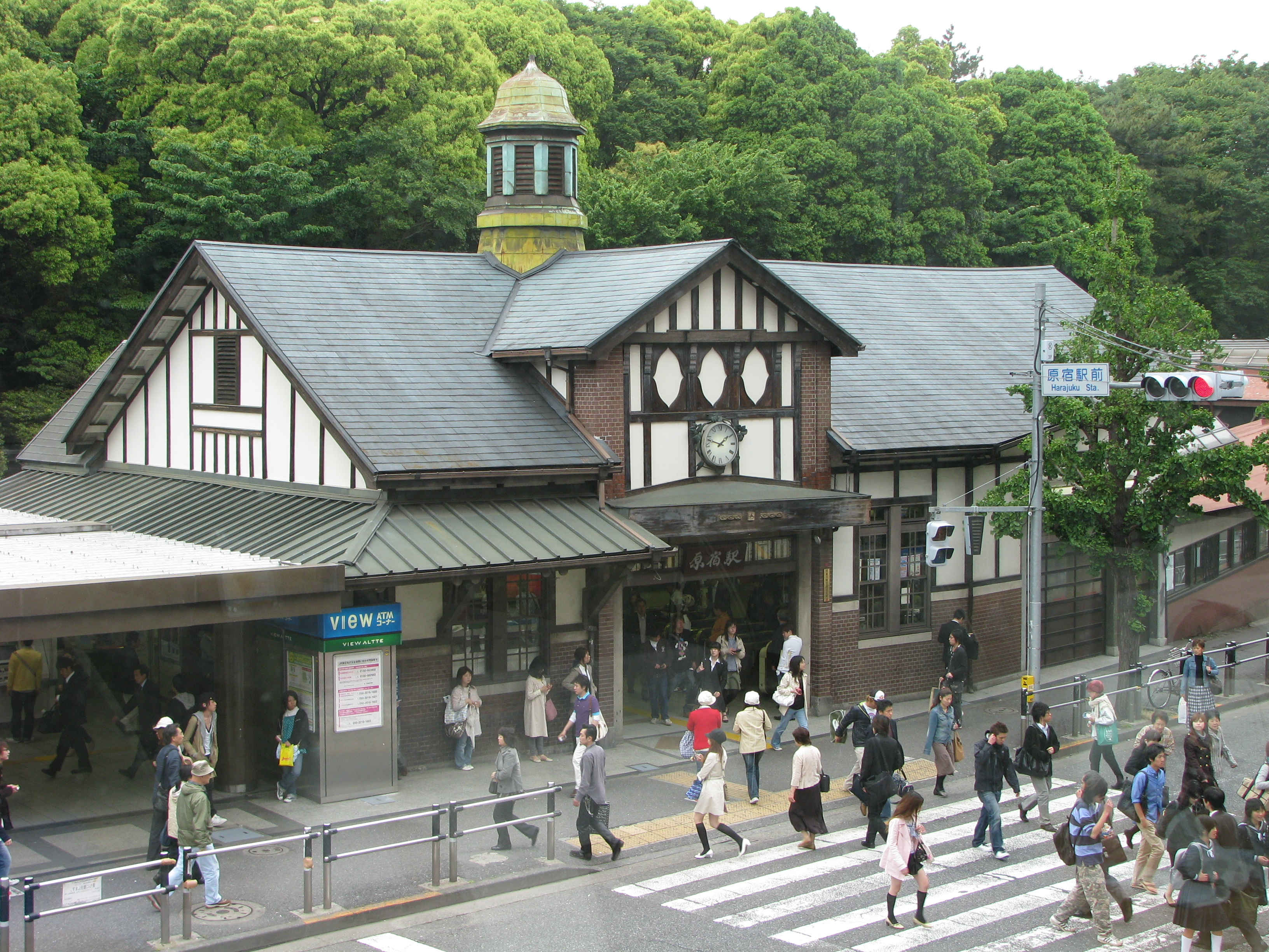 Harajuku Station in Tokyo